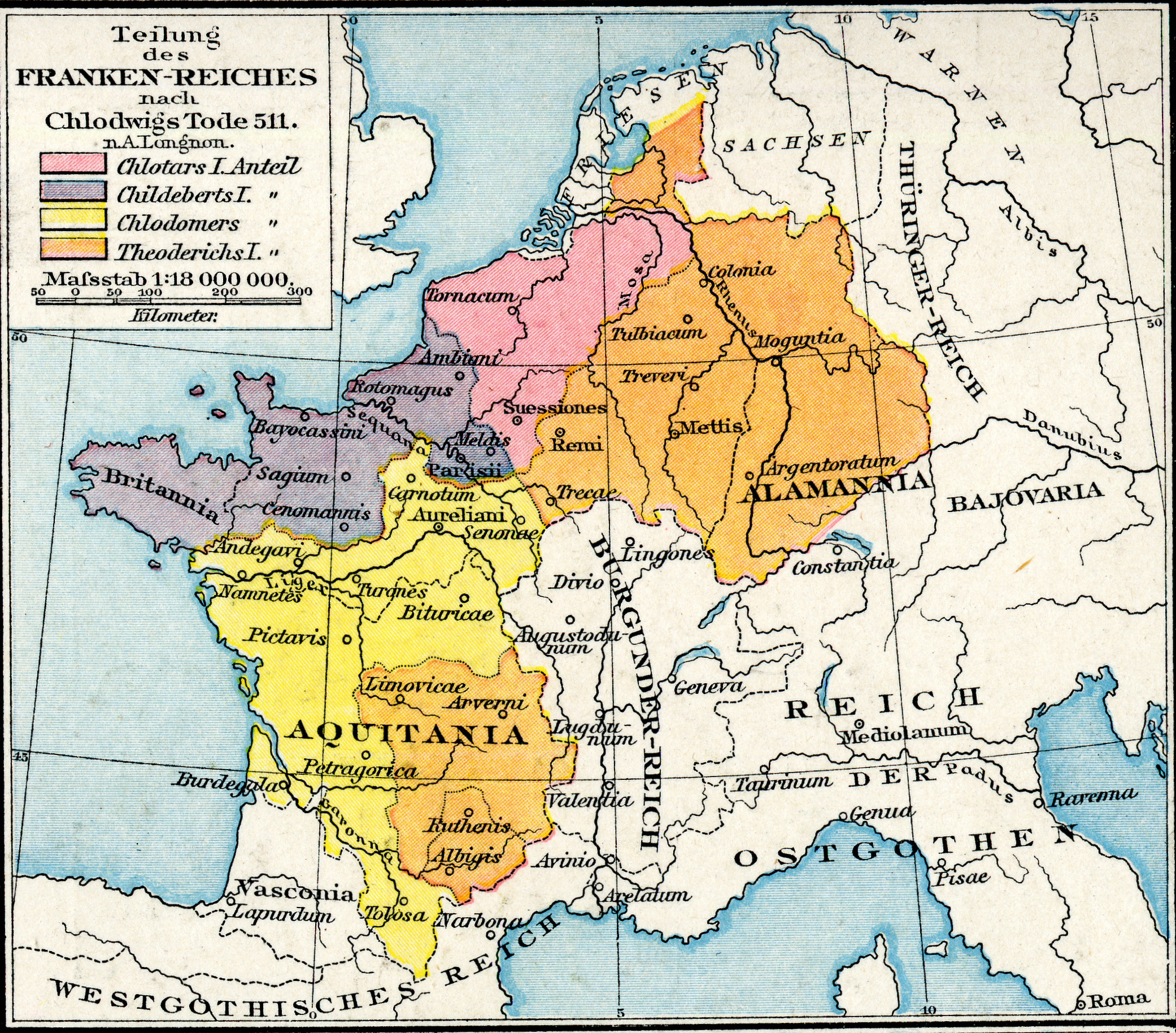 First inset from plate 20 of Professor G. Droysens Allgemeiner Historischer Handatlas, published by R. Andrée. Shows the kingdom of France in 511.